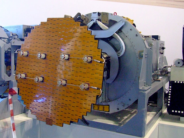 Zhuk on MAKS Airshow-2007. Slot array antenna.